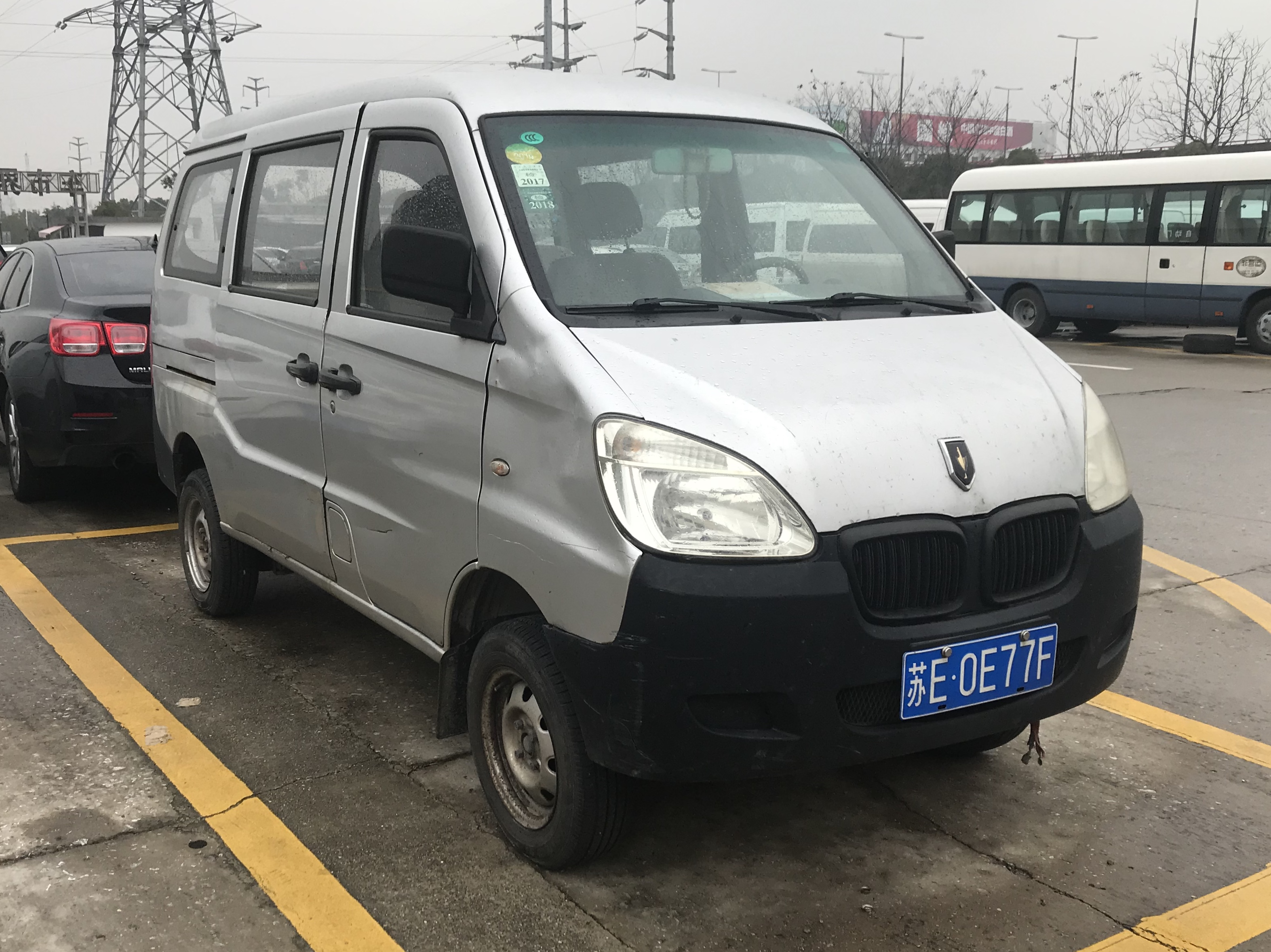 Jinbei Haixing A9 front